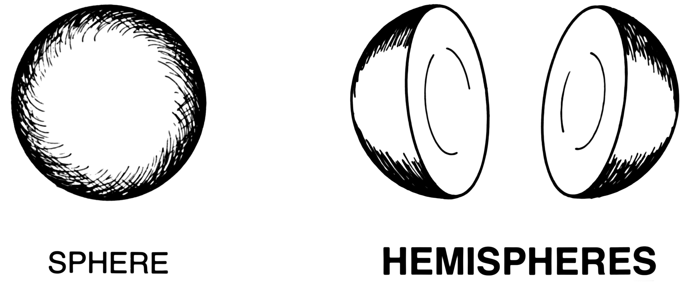 Line art drawing of hemispheres, with description in English.